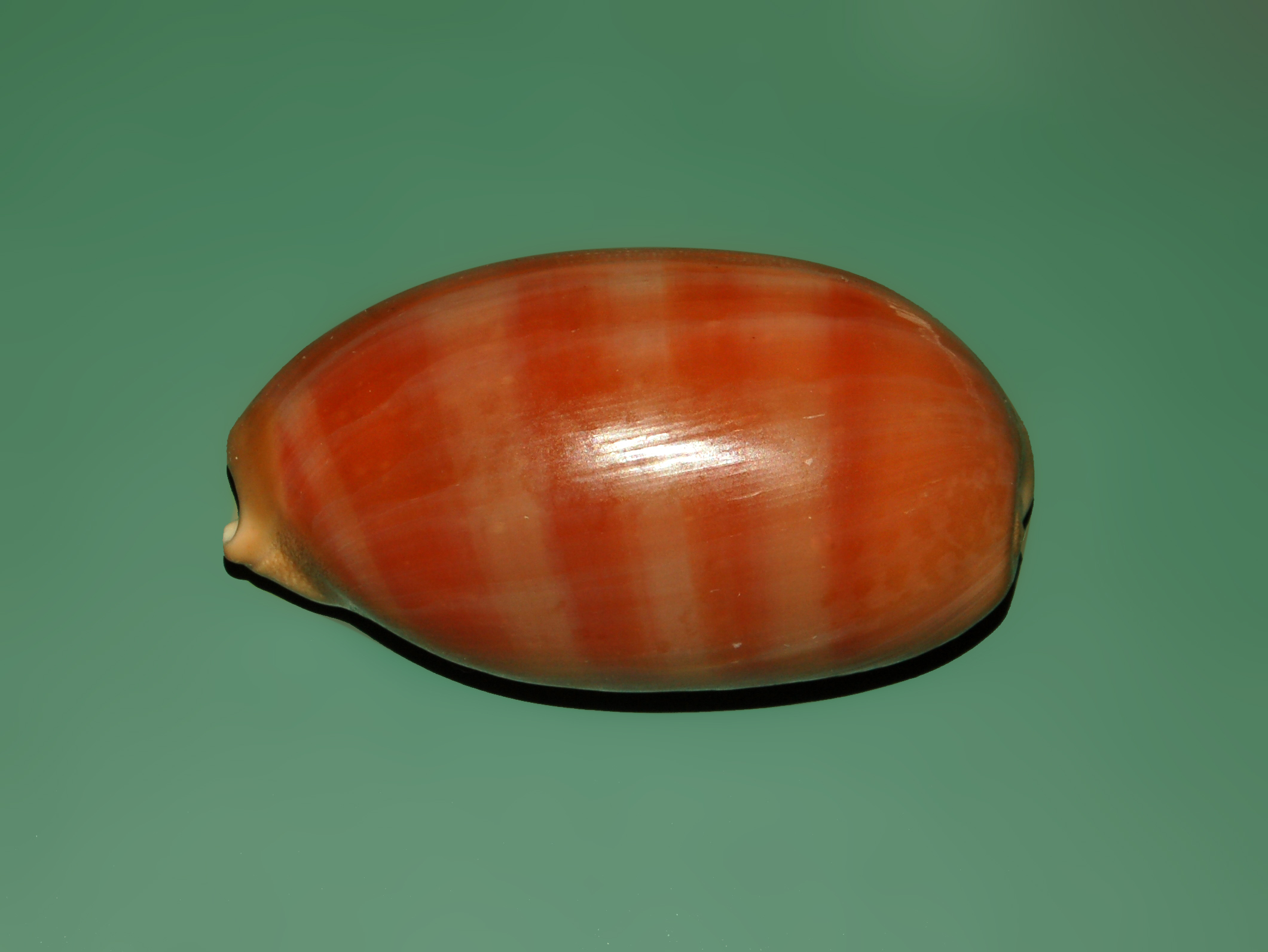 Lyncina leviathan leviathan - Hawaii